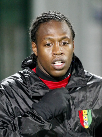 Guinean player Pablo Thiam during match Guinea vs. Côte d'Ivoire at Stade Robert Diochon, Rouen, France.